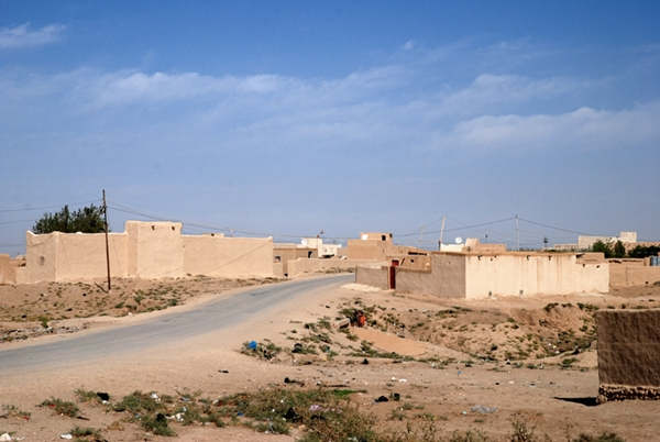 The collective village (mujammaʿat) Gobel (other names: Kūhbil, Gohbil, Guhbl, كوهبل arabic, گوهبل kurdish) north of Jabal Sinjar (N 36° 31' 17 E 41° 57' 25)